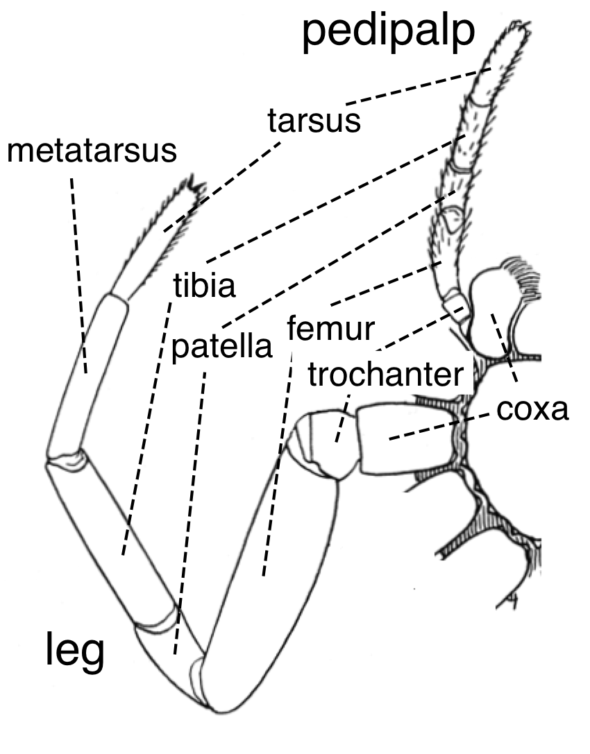 Diagram showing the external anatomy of a pedipalp and leg of a spider